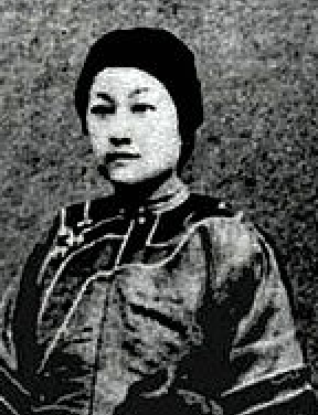 Maebang, wife of Kroean Indifendunce activist's Yun Chi-ho's wife